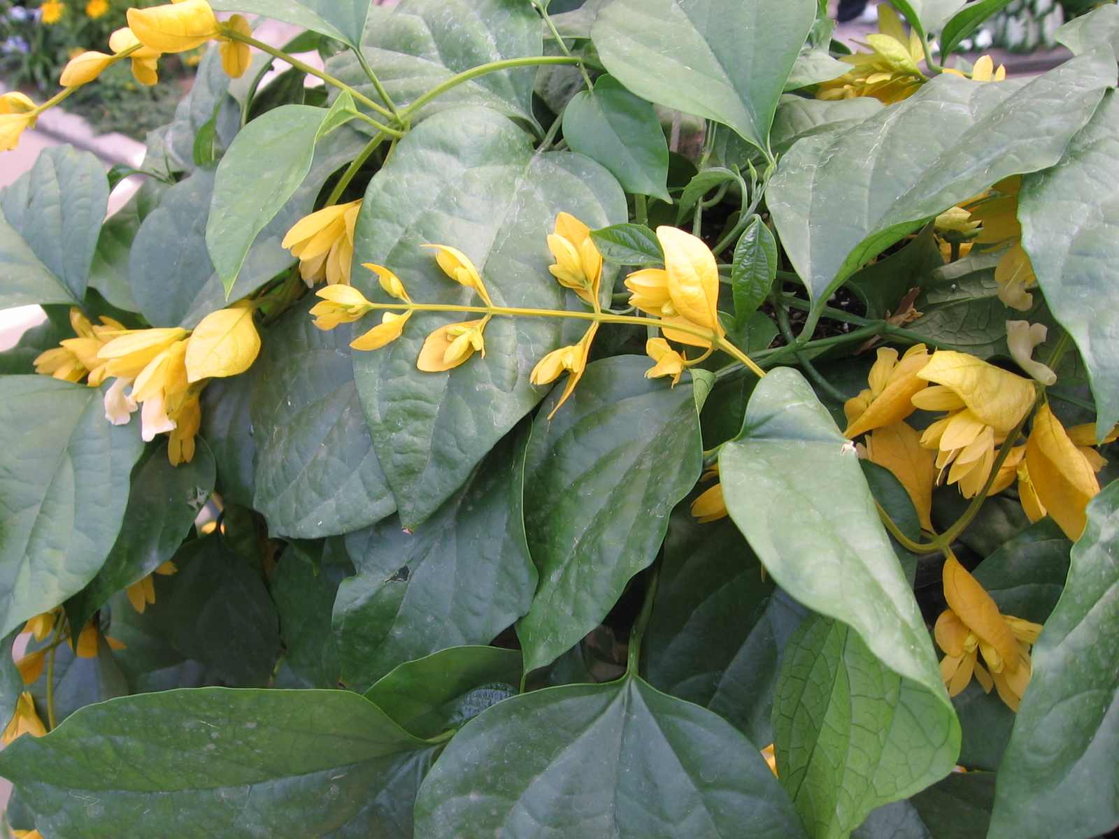 Nong Noch vine, Petraeovitex bambusetorum, Jardin botanique de Montréal.